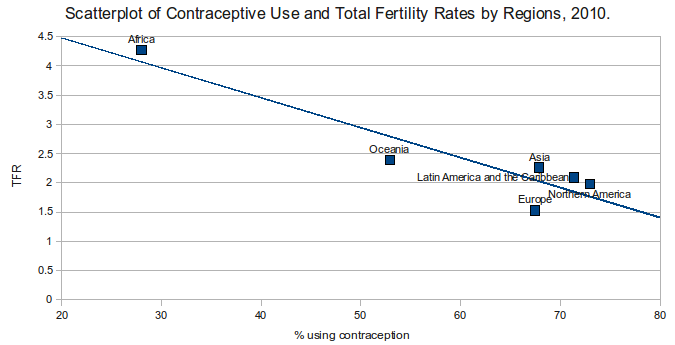 This is a scatterplot contrasting contraceptive use and total fertility rate for the major regions of the world in 2010. The source data is from the United Nations World Population Prospect 2008 and UN World Contraceptive Use 2007.